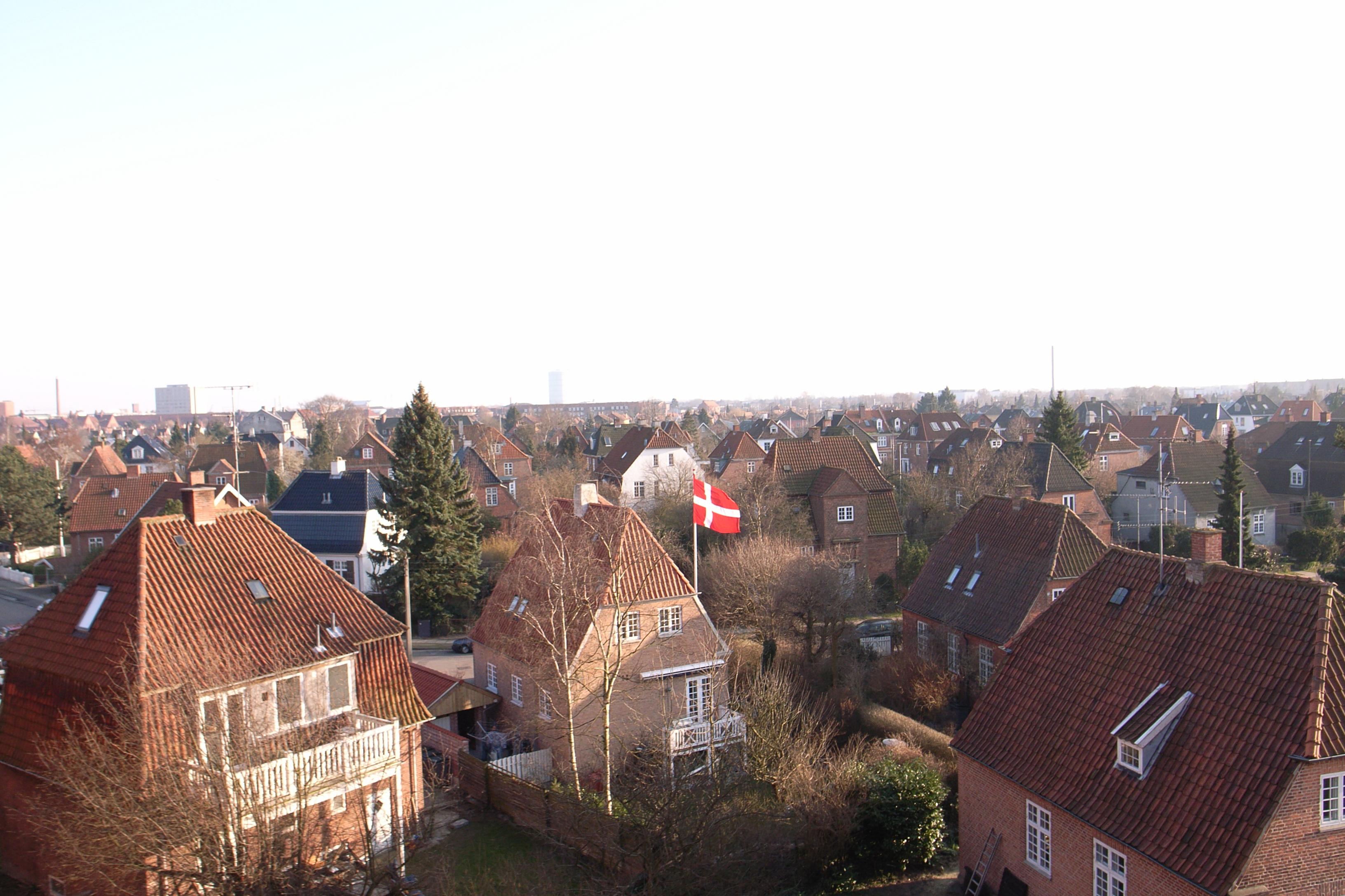 Eiiftop panorama from the Valby district of Copenhagen, Denmark